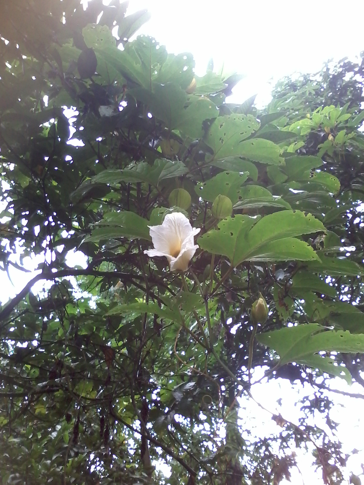 Momordica Cochinchinensis Flower in the courtyard